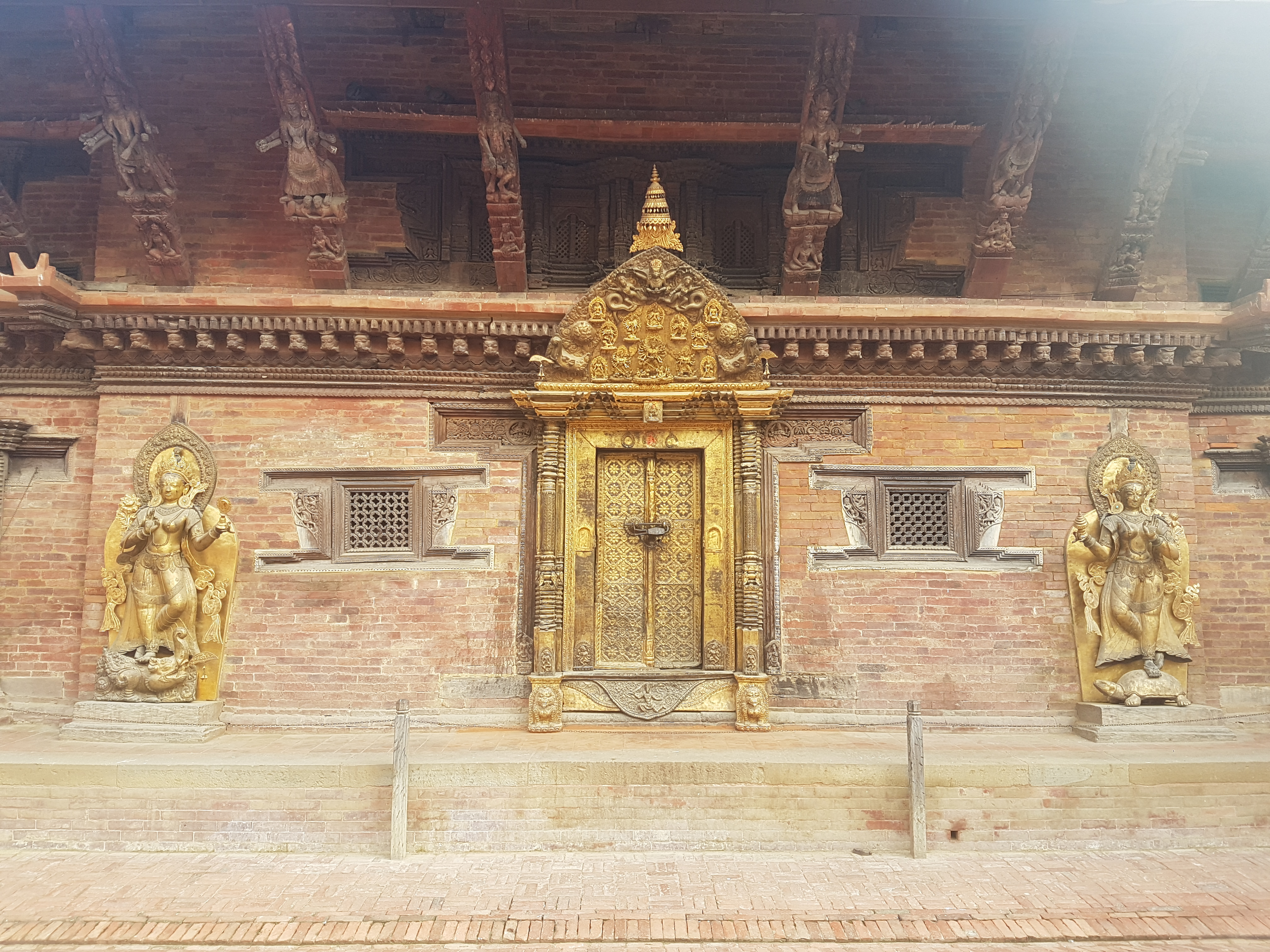 Mul Chok is the central courtyard. It is the most famous and largest courtyards among the three main chowks.